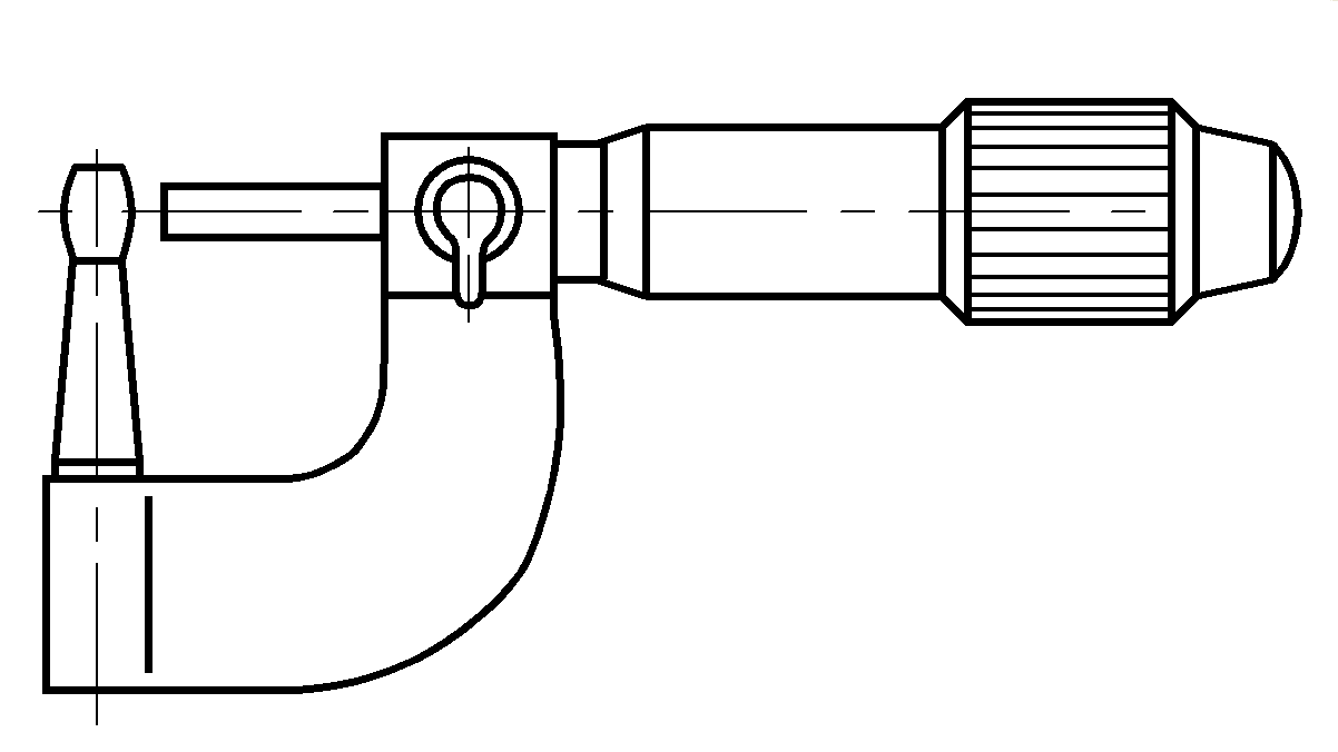 micrometer for tubes